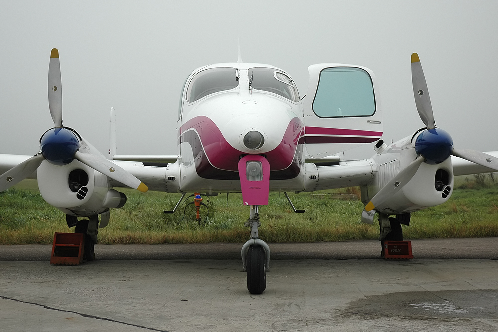 Let L-200 Morava Author: Dmitry A. Mottl email: dm_at_mottl.ru